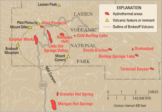 USGS image from [1]